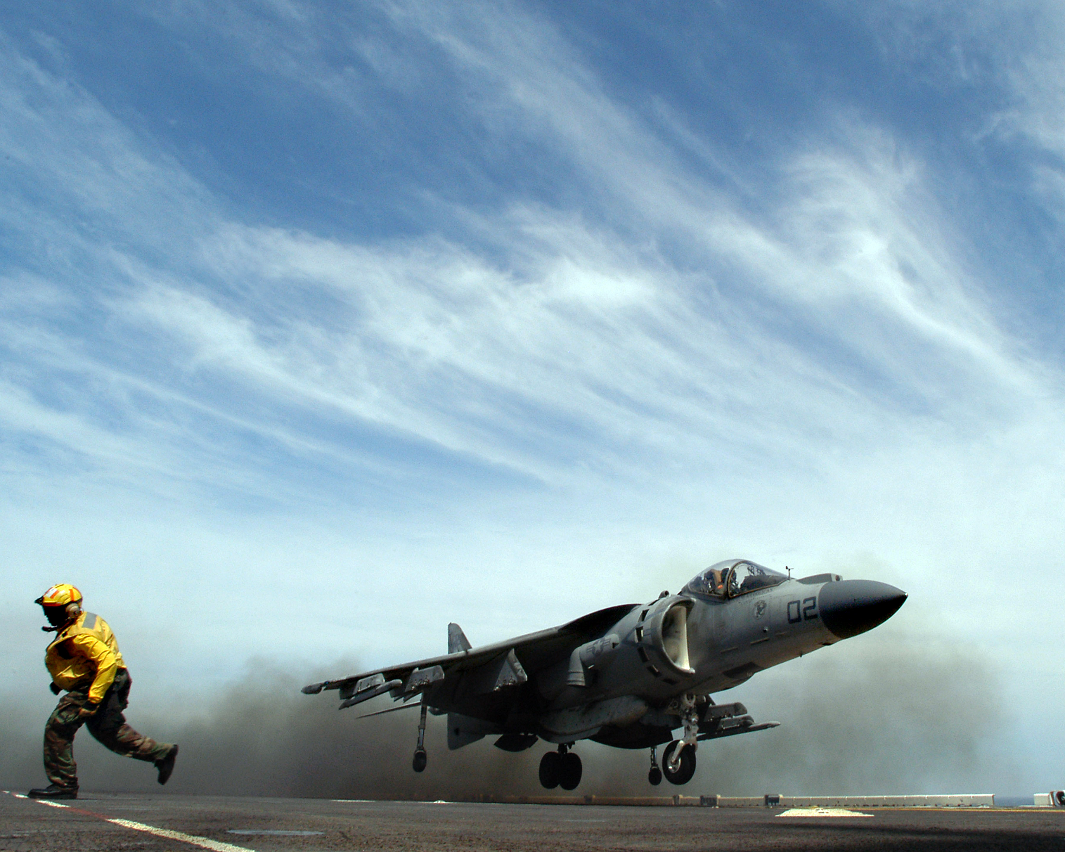 Atlantic Ocean (April 23, 2005) - Aviation Boatswain's Mate 2nd Class Courtney F. Godfrey runs behind the foul line as a Marine Corps AV-8B Harrier II+, assigned to the “Bulldogs” of Marine Attack Squadron Two Two Three (VMA-223), performs a vertical takeoff from the flight deck of the amphibious assault ship USS Iwo Jima (LHD 7). The AV-8B is a high performance, single-engine, single-seat, Vertical/Short Take-off and Landing (V/STOL) attack aircraft. The AV-8B Harrier II+ is capable of night and adverse weather operations due to the addition of the AN/APG-65 multi-mode radar. The fusion of night and radar capabilities allows the Harrier to be responsive to the Marine Air-Ground Task Force's needs for expeditionary, night and adverse weather, offensive air support. Iwo Jima is currently conducting training operations in the Atlantic Ocean. U.S. Navy photo by Photographer's Mate 1st Class Robet J. Fluegel (RELEASED)